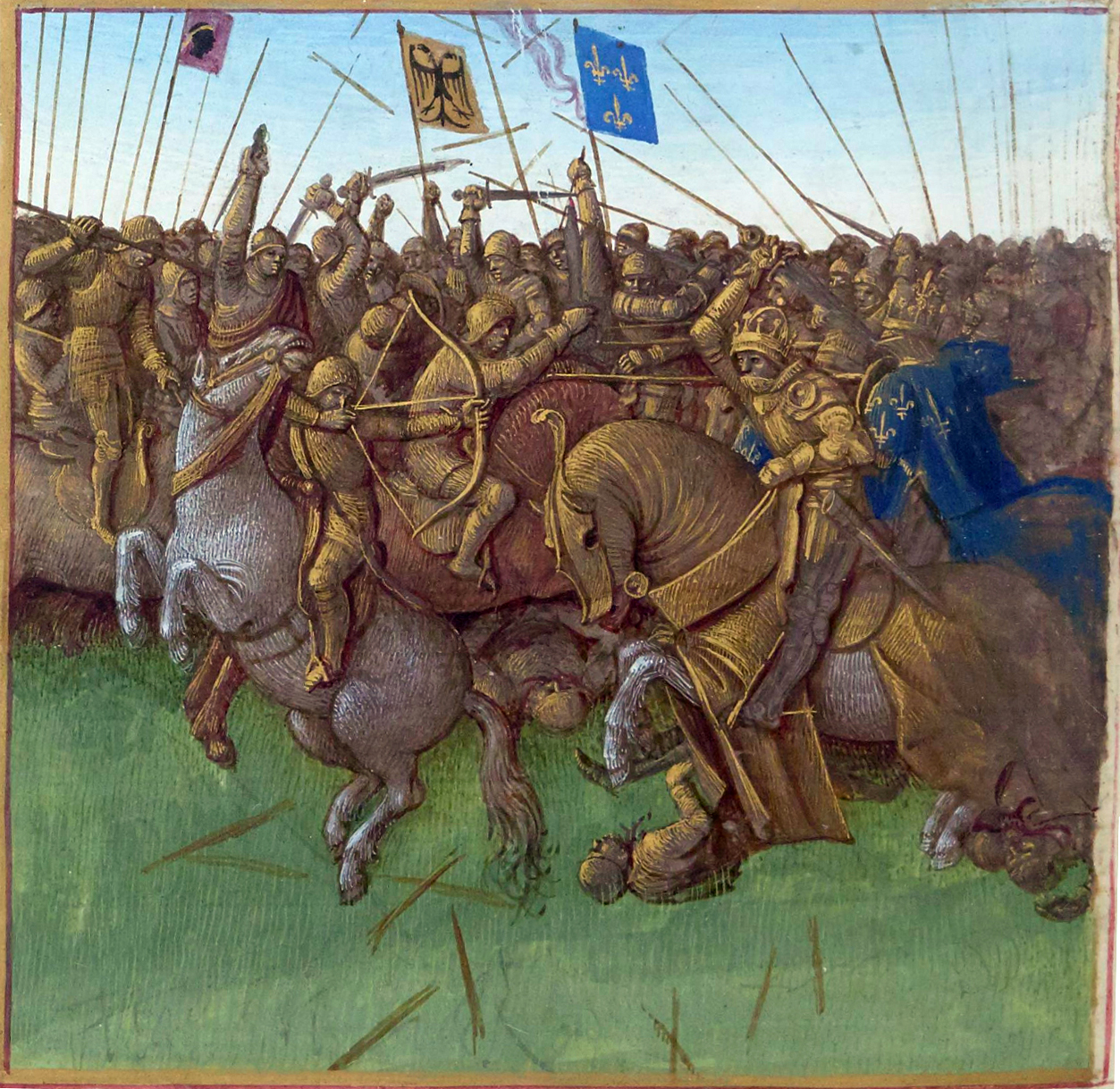 Grandes Chroniques de France, illustrated by Jean Fouquet of Tours, 1455x1460, Paris, BnF, Français 6465, fol. 154v. (Livre de Louis III et Carloman) / Fouquet imagines the victory of Louis III and Carloman over the Vikings in 879 on the banks of the river Vienne.